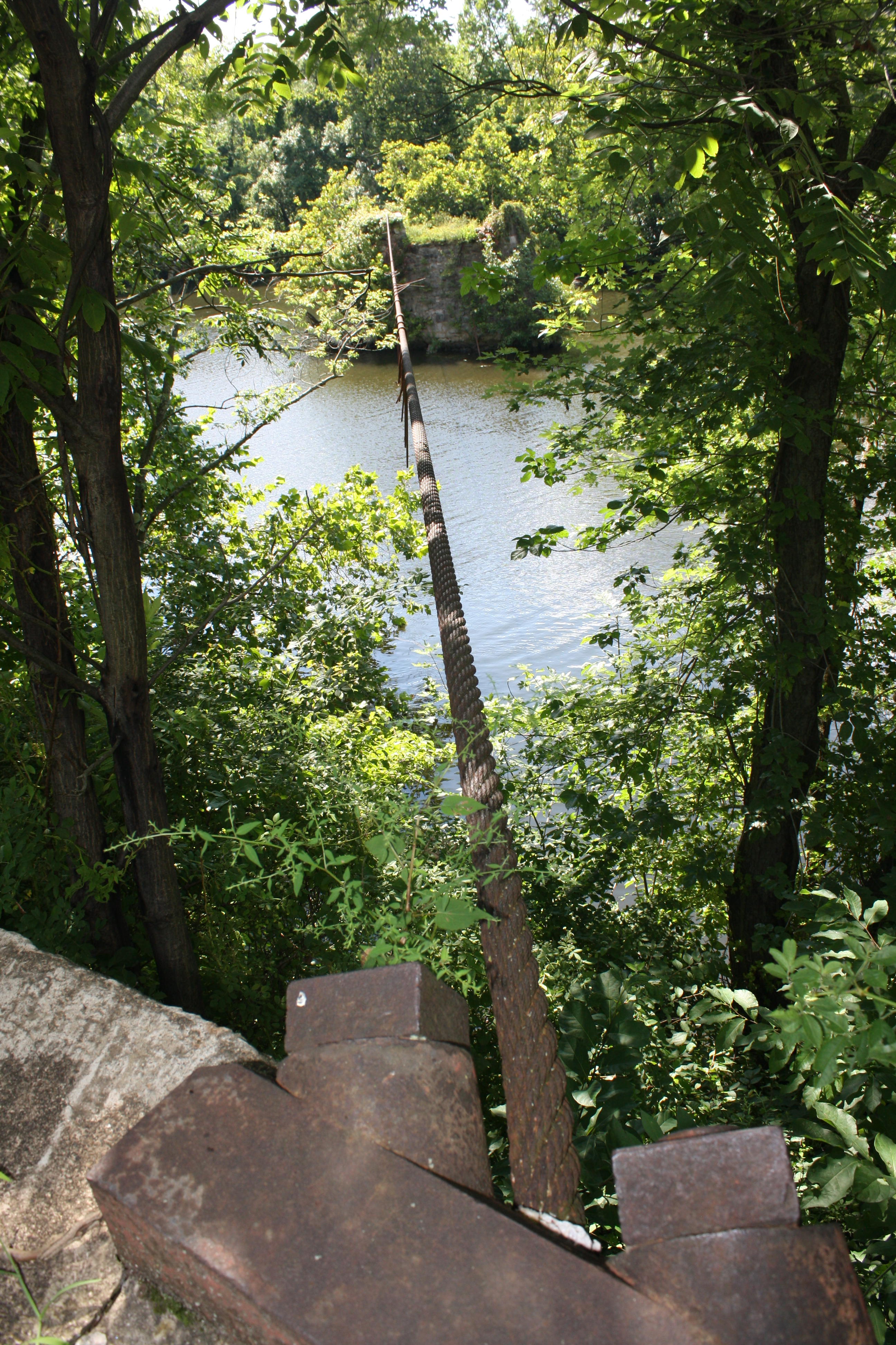 Chain Bridge is a historic change bridge spanning the Lehigh River at Palmer Township and Williams Township, Northampton County, Pennsylvania. It was built in 1856-1857. The Cable and central Pier.